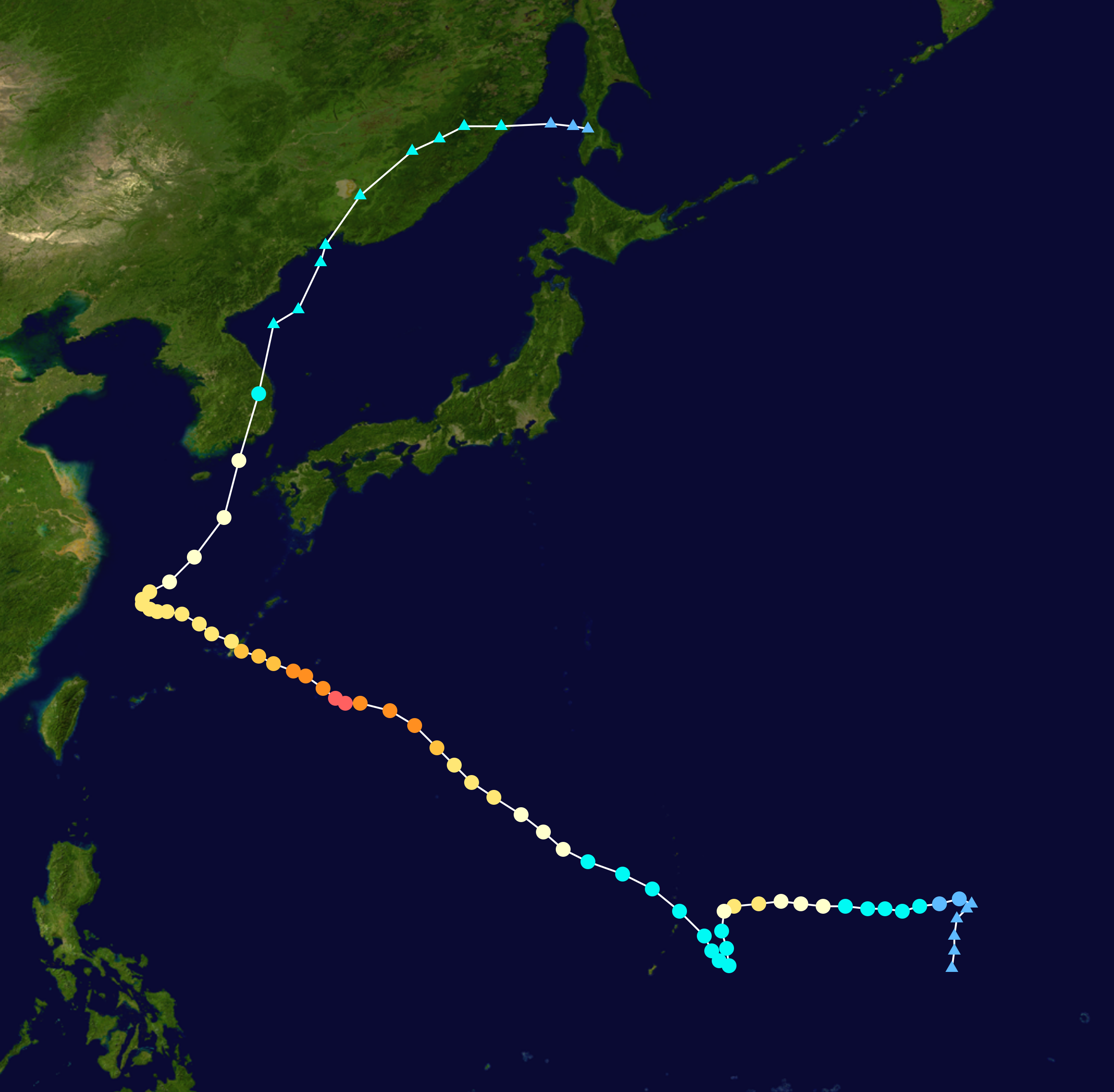 Track map of Typhoon Saomai of the 2000 Pacific typhoon season. The points show the location of the storm at 6-hour intervals. The colour represents the storm's maximum sustained wind speeds as classified in the Saffir–Simpson scale (see below), and the shape of the data points represent the nature of the storm, according to the legend below. Saffir–Simpson scale Tropical depression≤38 mph≤62 km/h Category 3111–129 mph178–208 km/h Tropical storm39–73 mph63–118 km/h Category 4130–156 mph209–251 km/h Category 174–95 mph119–153 km/h Category 5≥157 mph≥252 km/h Category 296–110 mph154–177 km/h Unknown Storm type Tropical cyclone Subtropical cyclone Extratropical cyclone / Remnant low / Tropical disturbance / Monsoon depression